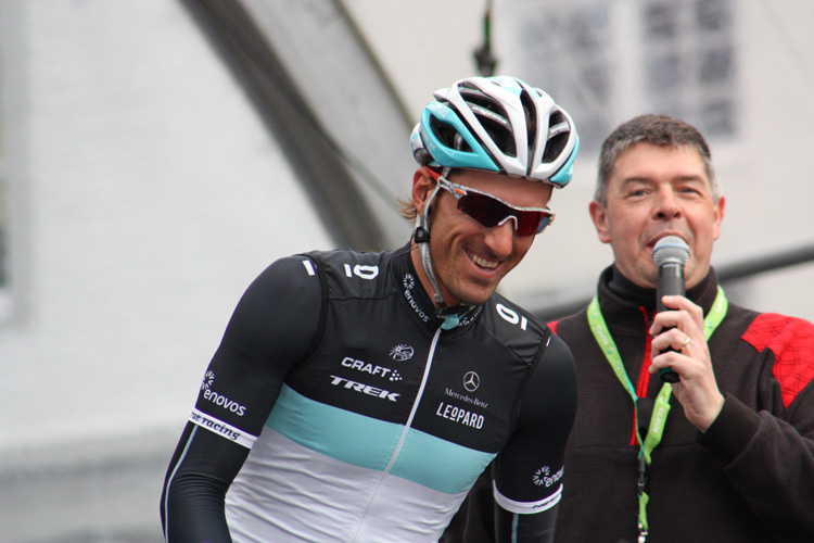 Fabian Cancellara at the start of the 2011 Tour of Flanders in Brugge 3. April.